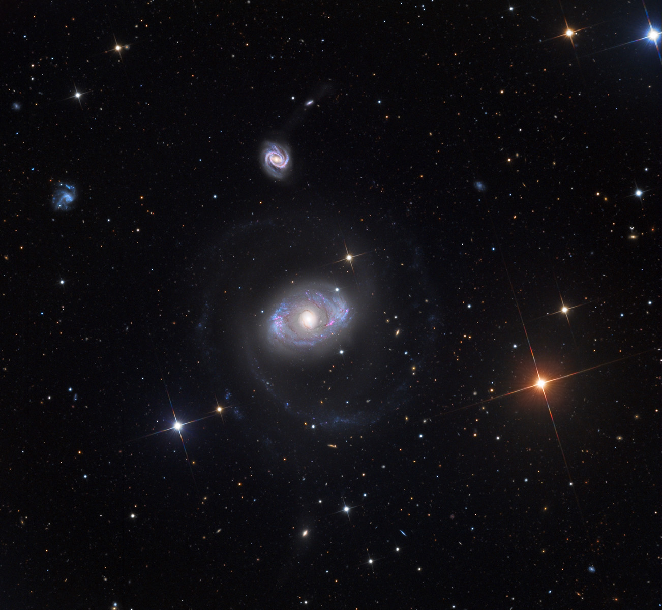 Optics 32-inch Schulman Foundation Telescope (RCOS) Camera SBIG STX16803 CCD Camera Filters Astrodon Gen II Dates March 2016 Location Mount Lemmon SkyCenter Exposure LRGB = 14 : 6 : 5 : 5 Hours Acquisition Astronomer Control Panel (ACP), Maxim DL/CCD (Cyanogen), FlatMan XL (Alnitak) Processing CCDStack, Photoshop, PixInsight Guest Astronomers Cardiff University (England) Credit Line & Copyright Adam Block/Mount Lemmon SkyCenter/University of Arizona